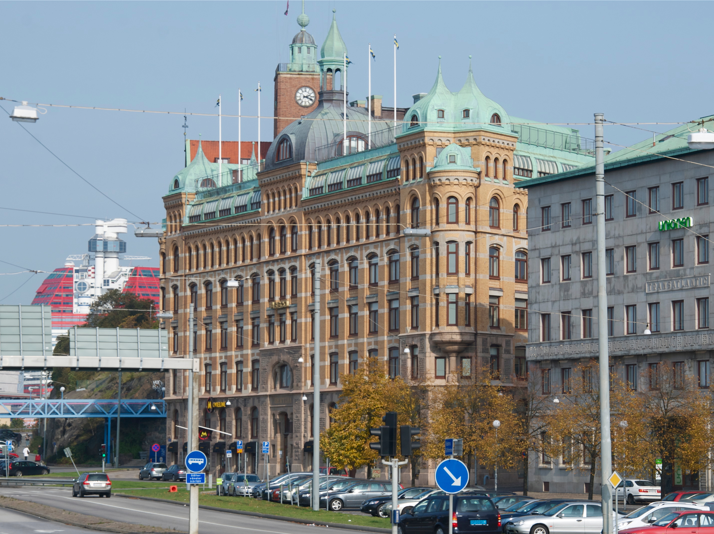 Packhusplatsen square 2 built 1901. Architect Louis Enders. Gothenburg, Sweden.